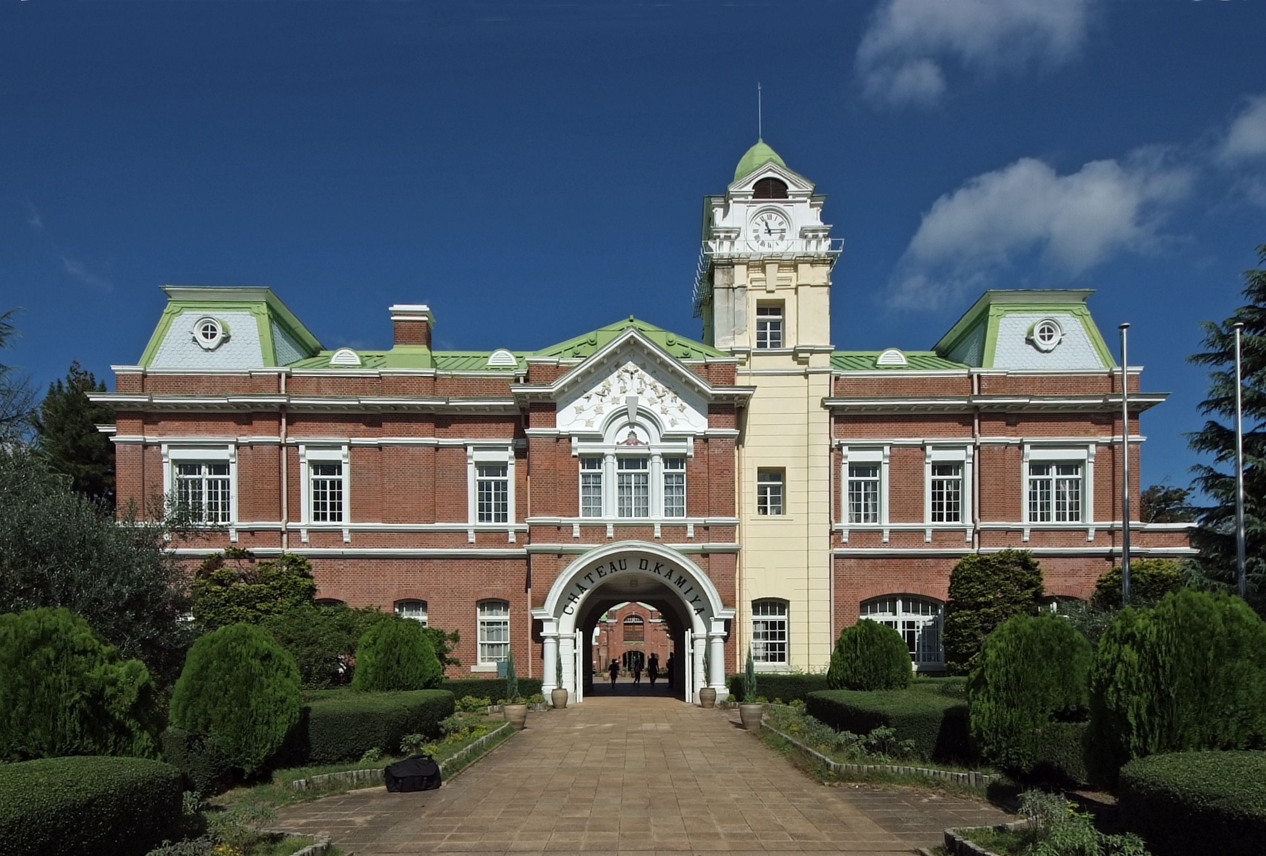 Château Kamiya (Ushiku Chateau) in Ushiku, Ibaraki, Japan.